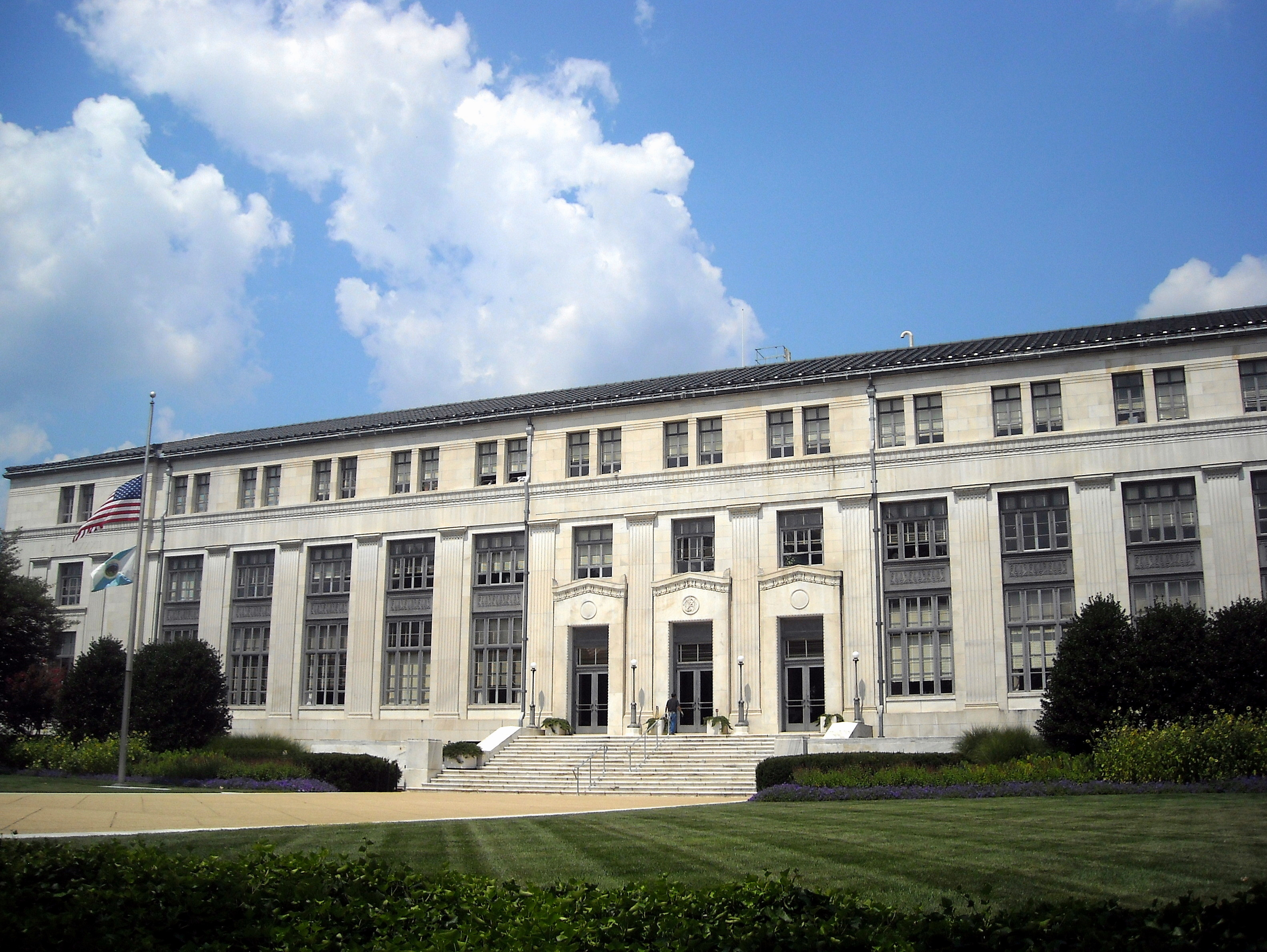 United States Department of the Interior's South Building (also known as the US Public Health Service Building) located at 1951 Constitution Avenue, NW in Washington, D.C. The Classical Revival building, constructed between 1931 to 1933 and designed by Jules Henri de Sibour, is listed in the National Register of Historic Places.